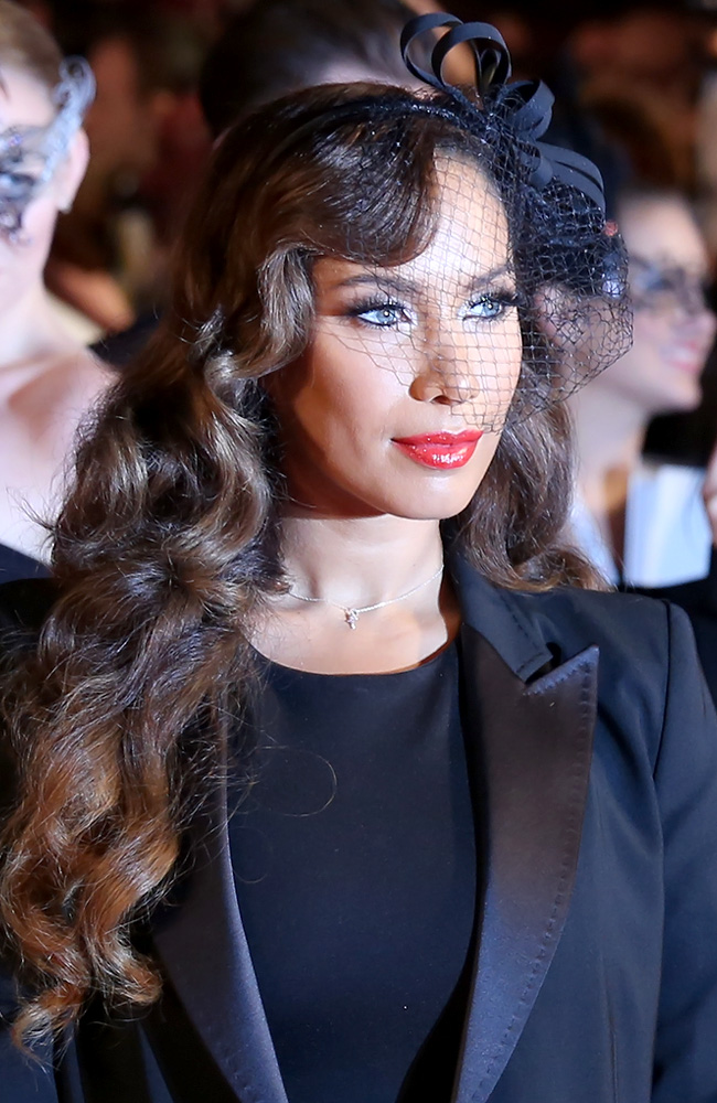 Life Ball 2014: Leona Lewis on the red carpet on the square in front of the Rathaus (Town Hall) of Vienna, Austria.